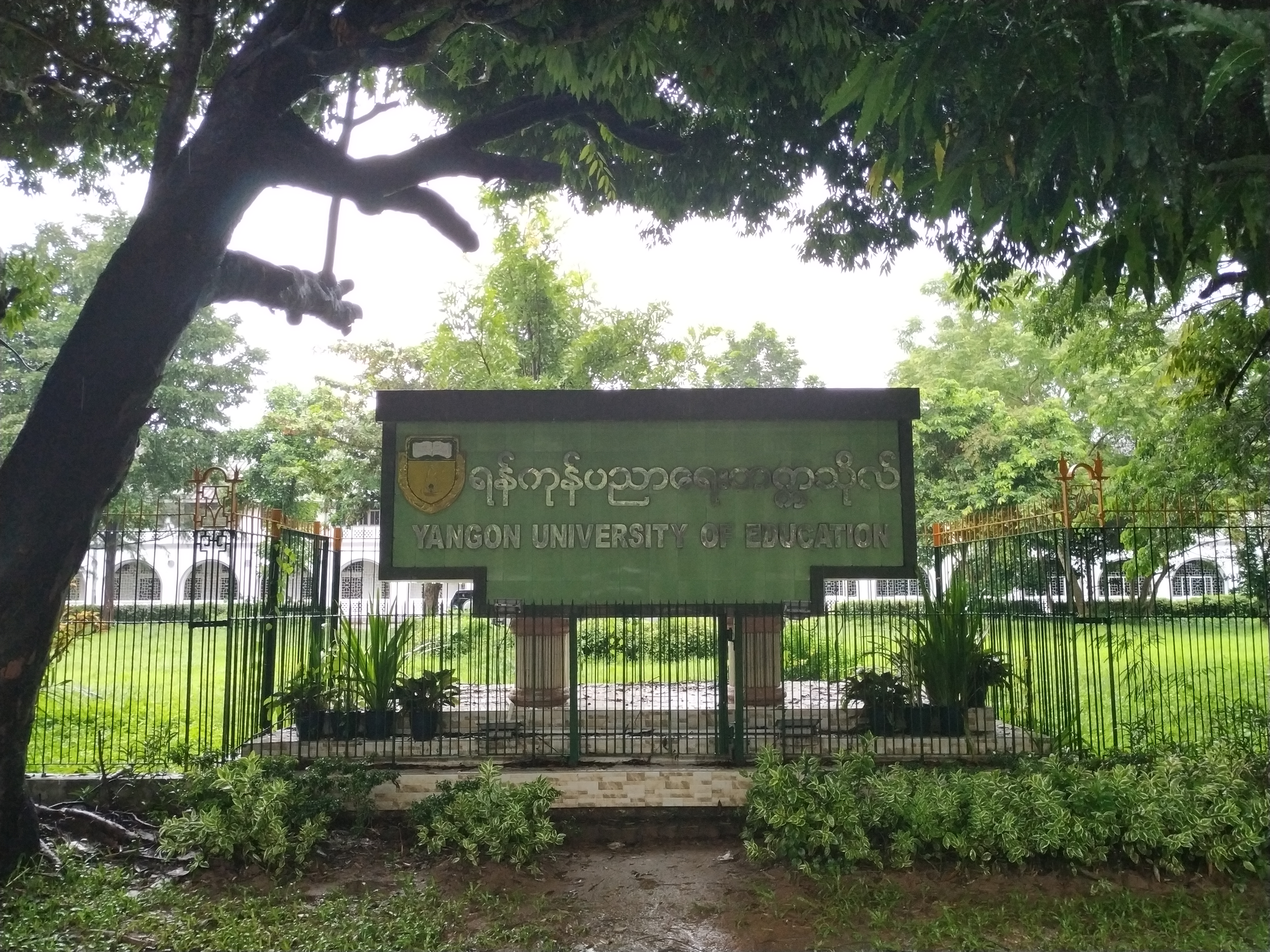 Yangon University of Education, Pyay Road, Yangon မြန်မာဘာသာ: ရန်ကုန်ပညာရေးတက္ကသိုလ်၊ ပြည်လမ်း၊ ရန်ကုန်မြို့